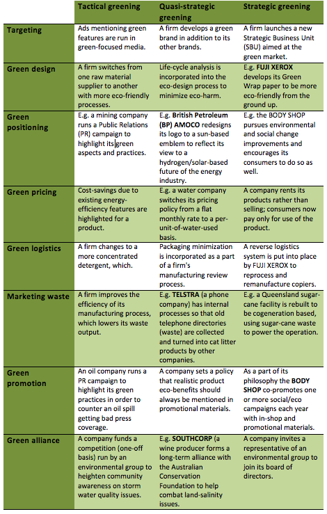 Overview of green marketing activities